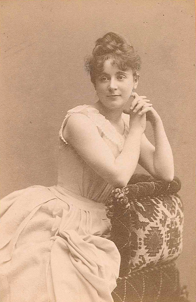 Teresina Tua (1867-1955/56?), Italian violin player and music teacher; known as "the angel of the violin".